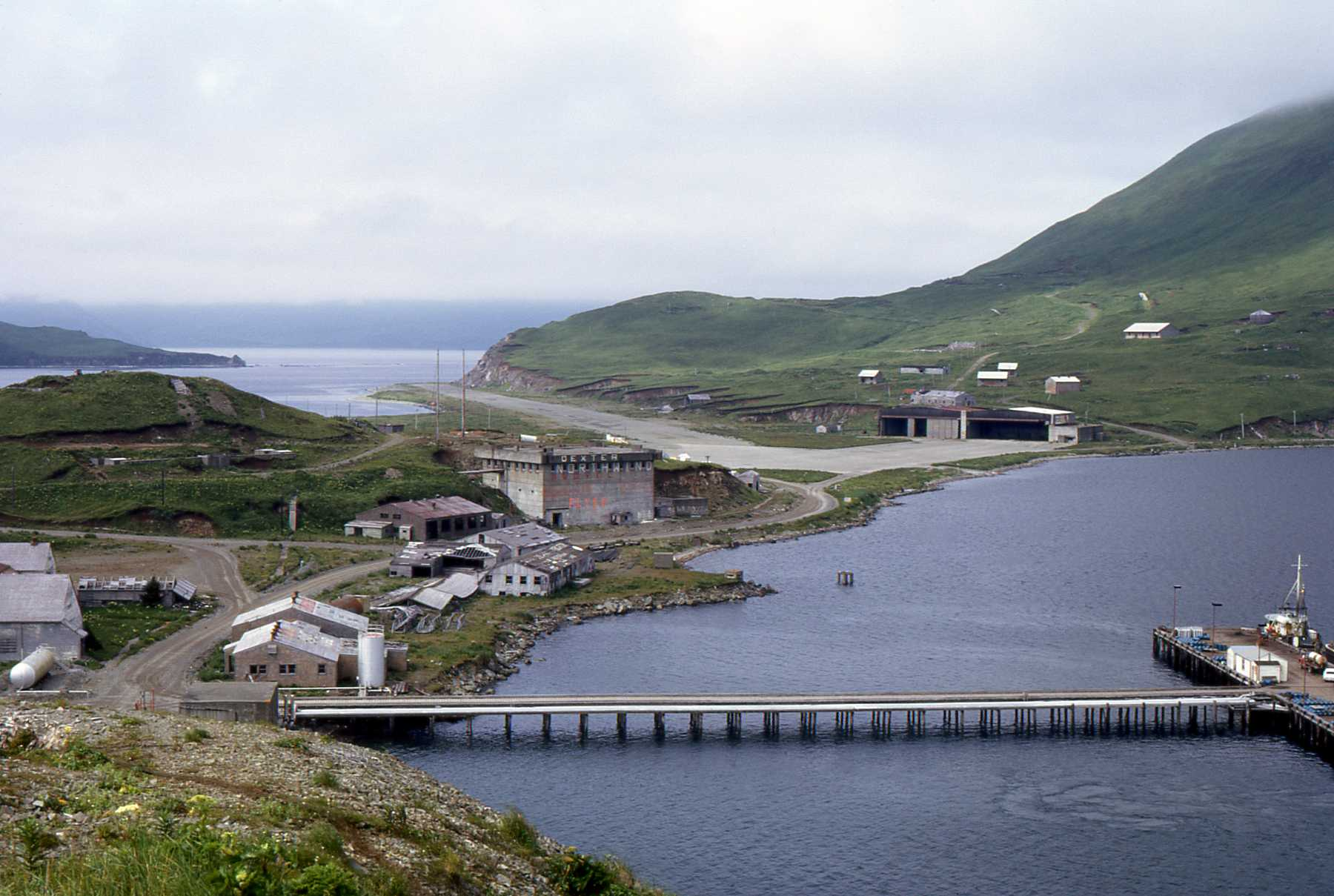 United States of America United States of America, Alaska, Dutch Harbor. The wharf and the unpaved airstrip in the background once used by the United States Navy Aero Unit. When the Navy left the island it was served by Reeve Aleutian Airways with Douglas DC-3, Curtiss C-46 Commando and USCG C-130 Hercules. The airstrip was later paved and a new terminal was built, nowadays is served by Pen Air.